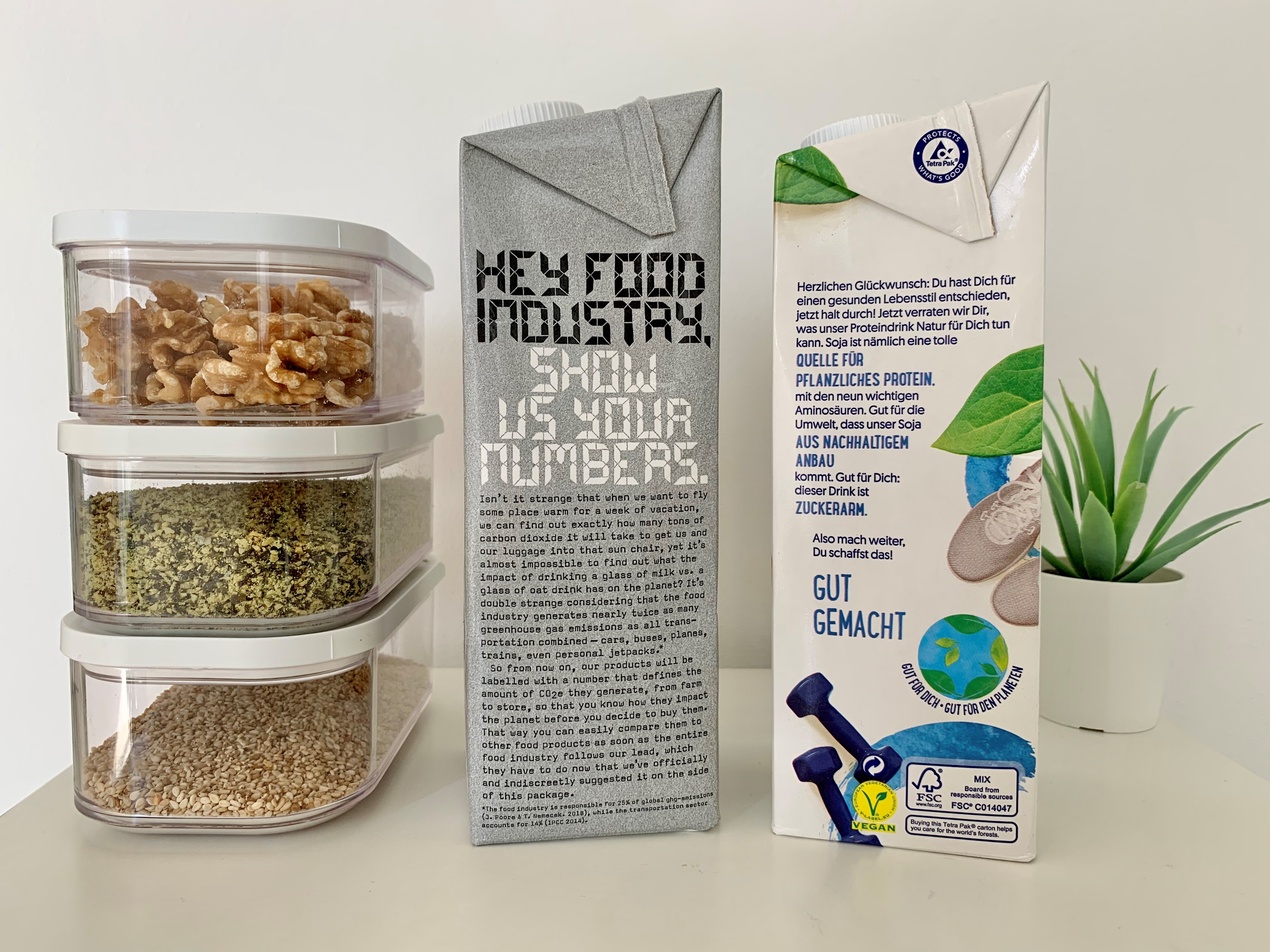 Environmental claims of plant milk (oat left, soy right).